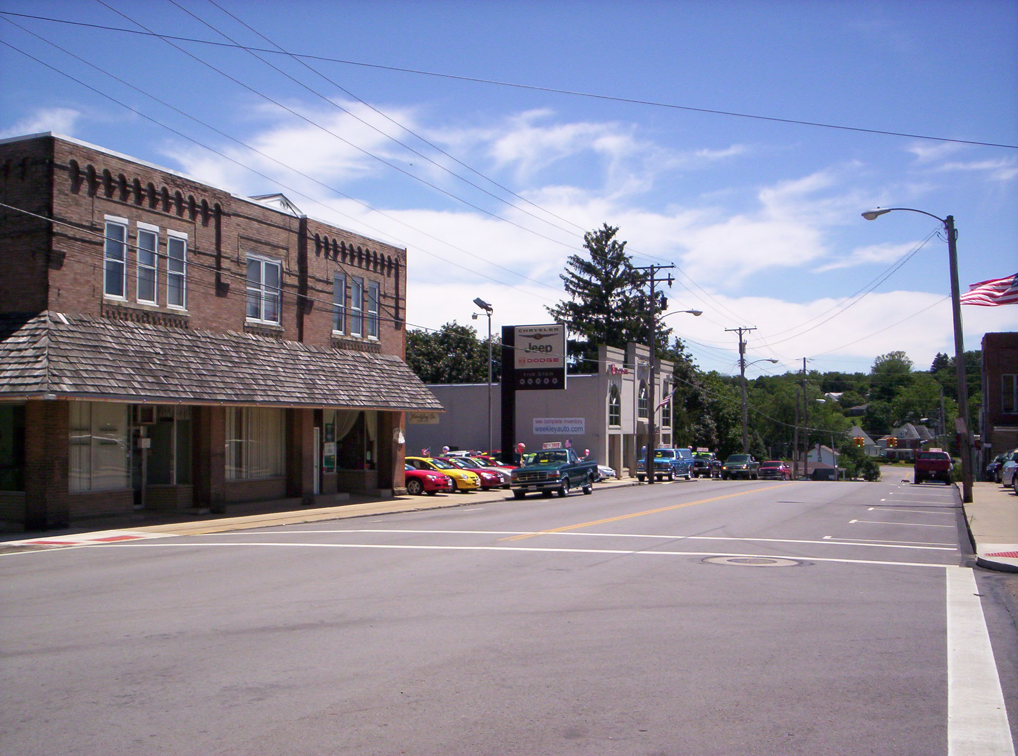 A view of downtown Butler, Ohio on Main Street.